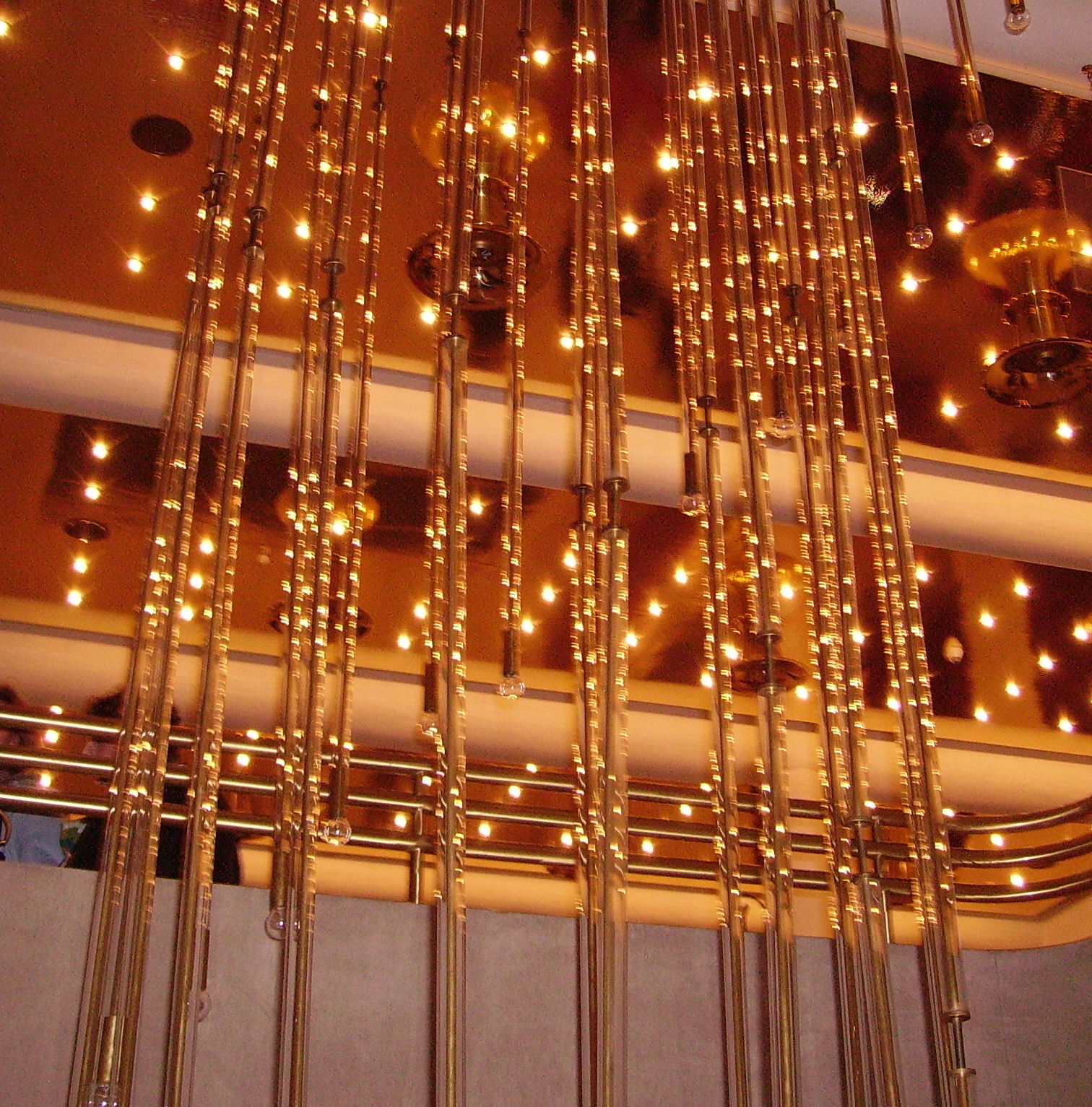 Saalbau in Neustadt an der Weinstraße, Germany